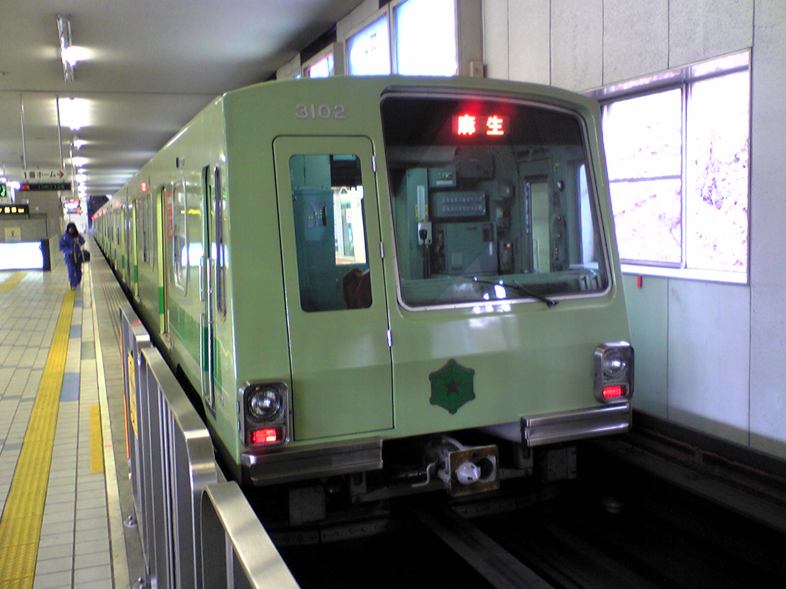 Sapporo City Transportation Bureau 3000-Type Railcar, Namboku line, Sapporo-city, Japan. Taken by Bellz asamidou on November 25, 2007.